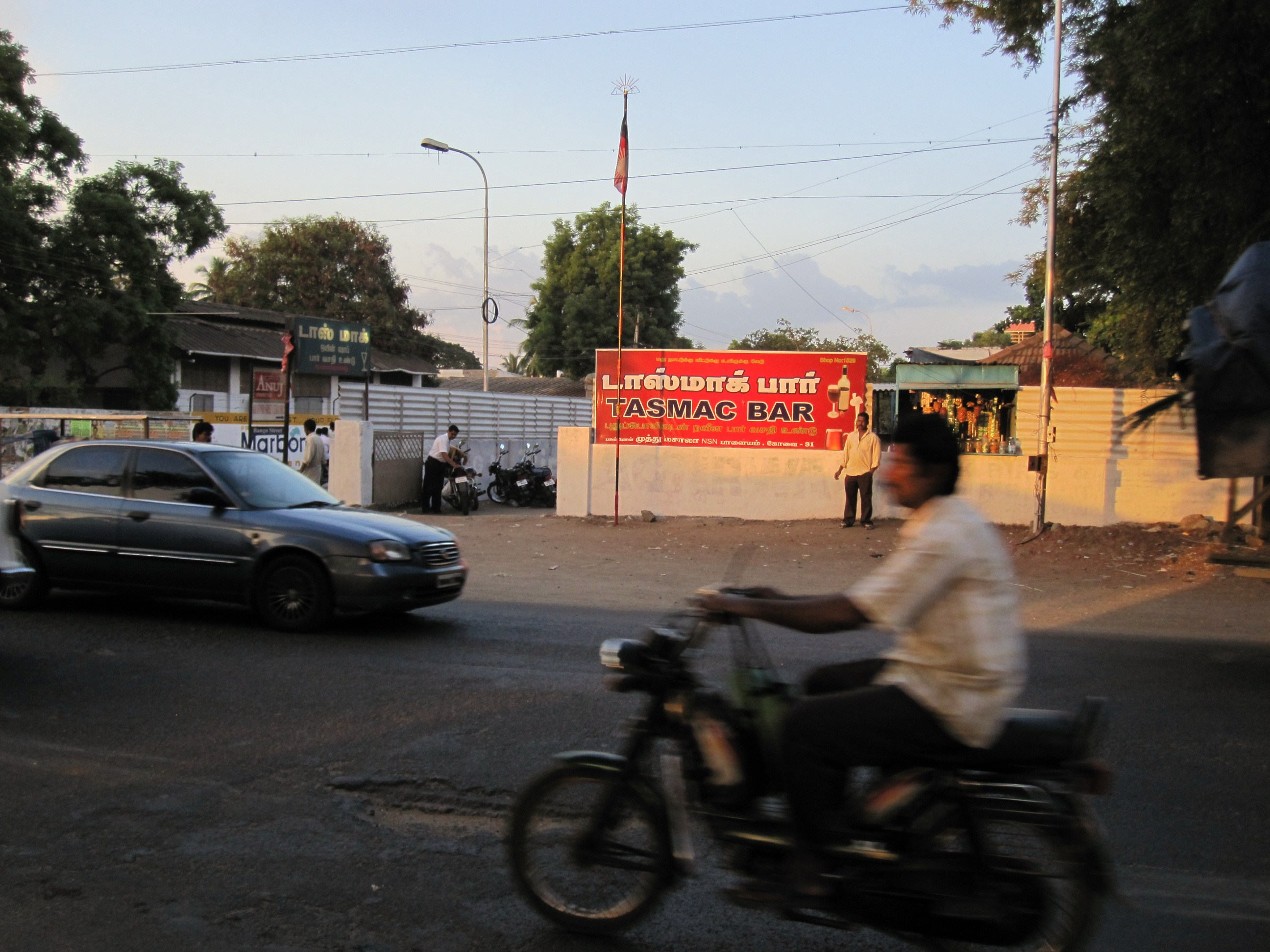 Front view of a TASMAC bar in Kavundampalayam, Coimbatore, Tamil Nadu. This is only the bar, the retail outlet is a few hundred feet from it.